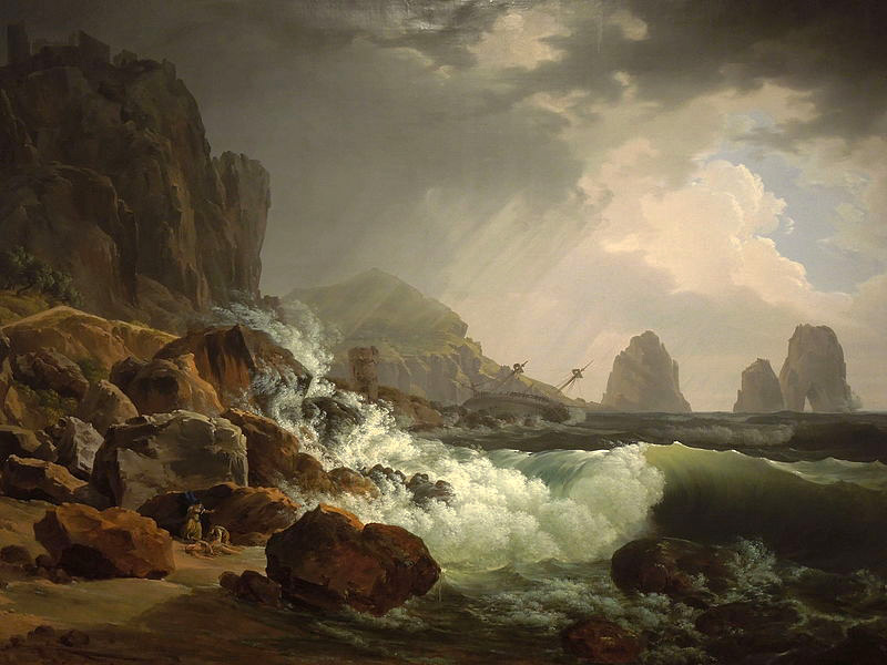 Joseph Rebell - Shipwreck (1815)